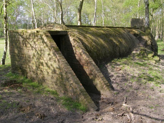 Disused air-raid shelter, Dilton, New Forest This shelter is amongst silver birch trees, just to the west of the western boundary of Beaulieu Heath. It is a Stanton type shelter, with a perpendicular brick entrance. It would once have had earth piled up against its curved sides - some of that soil remains as well as a silver birch that has grown right up against the side of the shelter. This is the northernmost one of a pair on the edge of what was the Beaulieu Heath airfield during the latter parts of the Second World War.